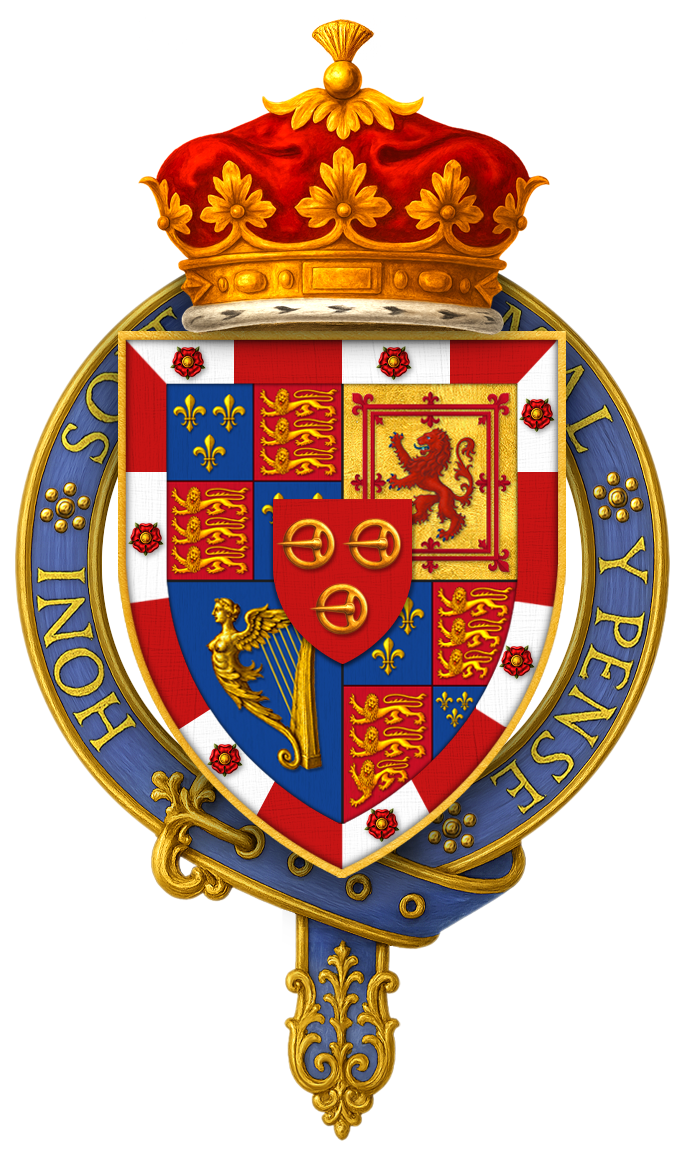 Garter encircled arms of Charles Gordon-Lennox, 6th Duke of Richmond, KG, as displayed on his Order of the Garter stall plate in St. George's Chapel.